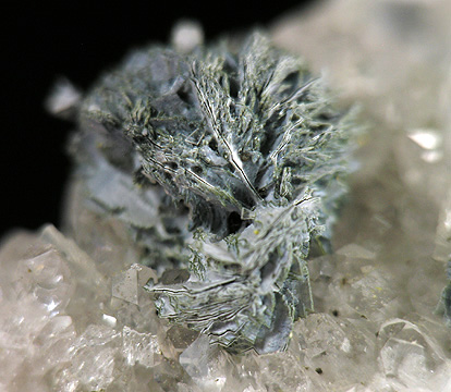 Babingtonite Locality: Prospect Park Quarry (Sowerbutt Quarry; Vandermade Quarry; Warren Brothers Quarry), Prospect Park, Passaic County, New Jersey, USA (Locality at ) Size: 4.7 x 3.6 x 1.6 cm. The Prospect Park Quarry is one of the most impressive Zeolite localities in the world. This quarry has produced some amazing specimens in the last 100 years. This specimen features rare blue-grey altered crystals of Babingtonite which are associated with pale golden Heulandite and nearly colorless rhombic Calcite crystals on Quartz. The Babingtonites from this locality are very distinctive, and certainly some of the most attractive for the species from the standpoint of the unusual color. Sadly, this great New Jersey locality is being filled in for a housing development, and pieces like this one will be never be collected again. Ex. Richard Kosnar Collection.